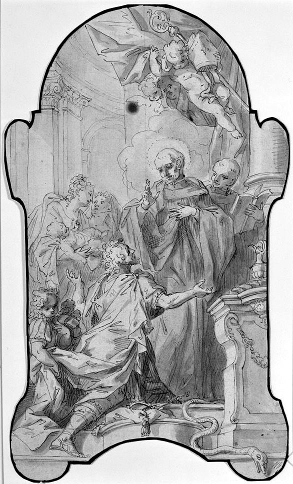 König Dagobert I. kniet vor St. Amandus von Worms, Barockgemälde (Studie) von Johann Georg Bergmüller